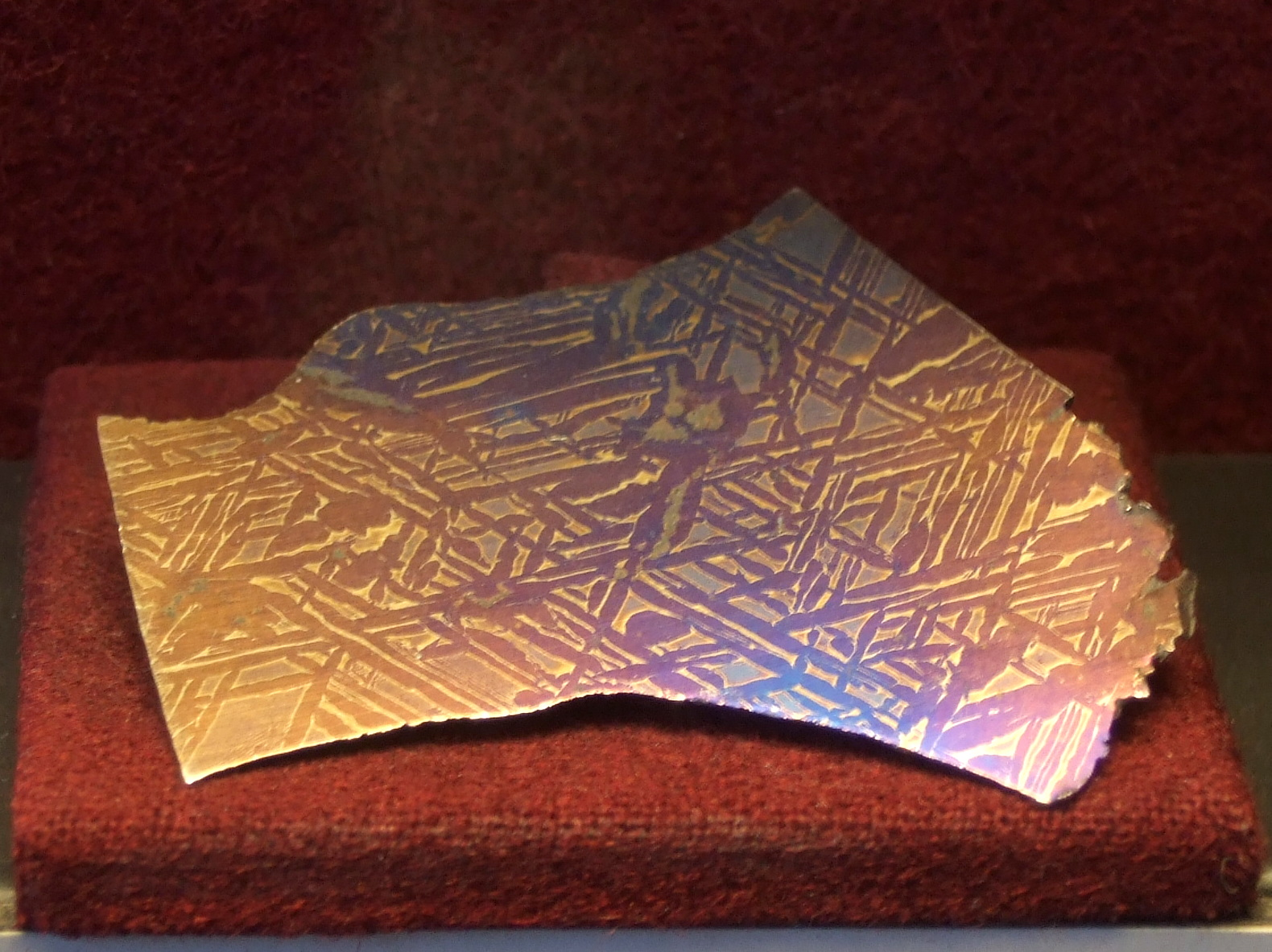 Hraschina meteorite. Oldest meteorite with known date of falling (26th of may 1751). On this piece the Widmanstätten patterns were discovered. Naturhistorisches Museum Wien.